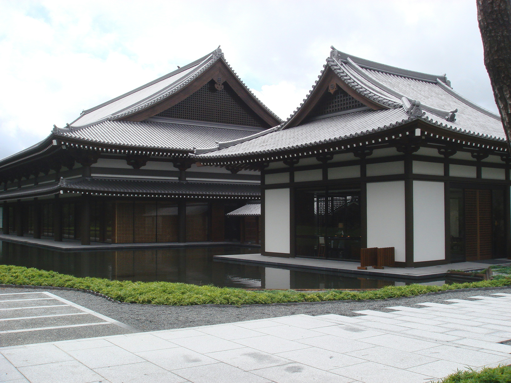 Satsuma Denshokan, Museum (Ibusuki, Kagoshima)